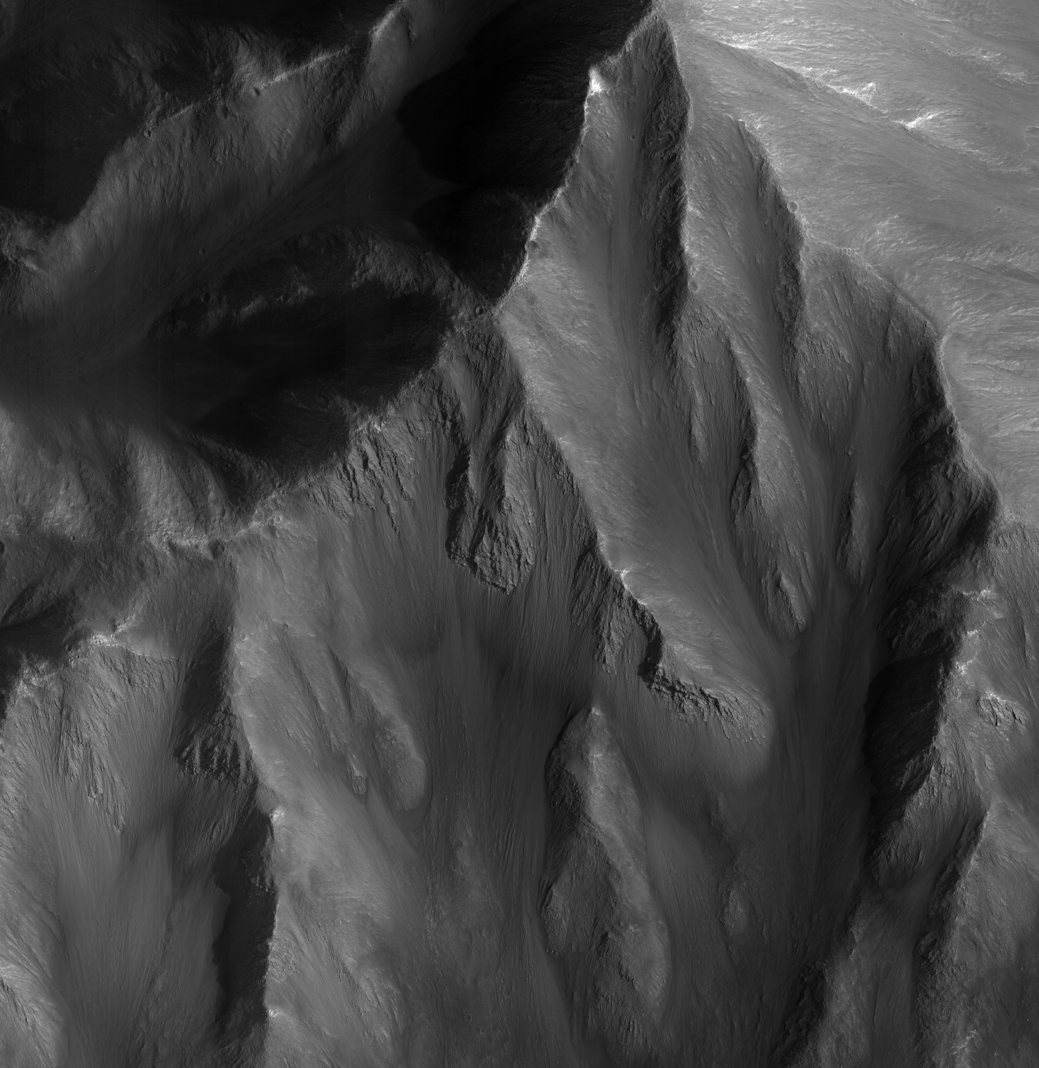 Portion of a larger HiRISE image of steep slopes in Hebes Chasma on Mars.